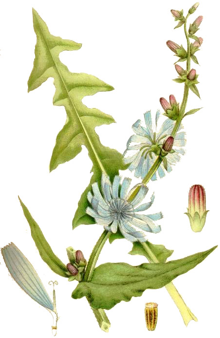 Cichorium intybus